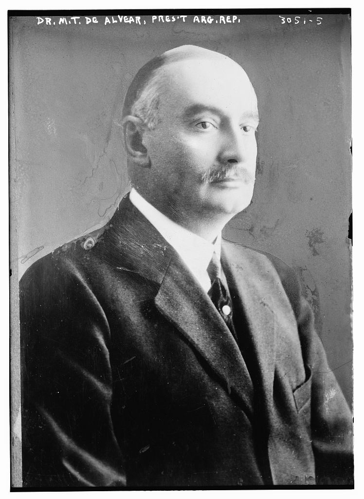 Bain News Service,, publisher. Dr. M. T. de Alvear, Pres. Arg. Rep. [between ca. 1910 and ca. 1915] 1 negative : glass ; 5 x 7 in. or smaller. Notes: Title from unverified data provided by the Bain News Service on the negatives or caption cards. Forms part of: George Grantham Bain Collection (Library of Congress). Format: Glass negatives. Repository: Library of Congress, Prints and Photographs Division, Washington, D.C. 20540 USA, General information about the Bain Collection is available at Persistent URL: Call Number: LC-B2- 3051-5